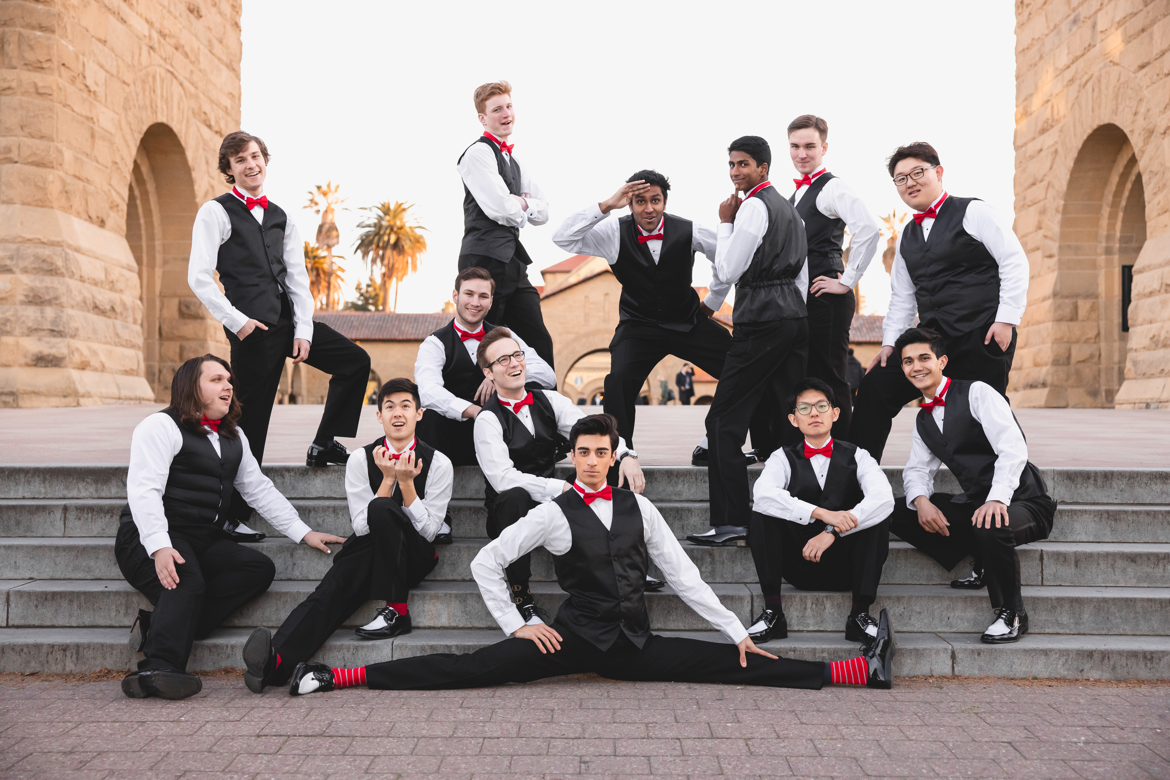 The Stanford Fleet Street Singers, during the 2018-19 year.